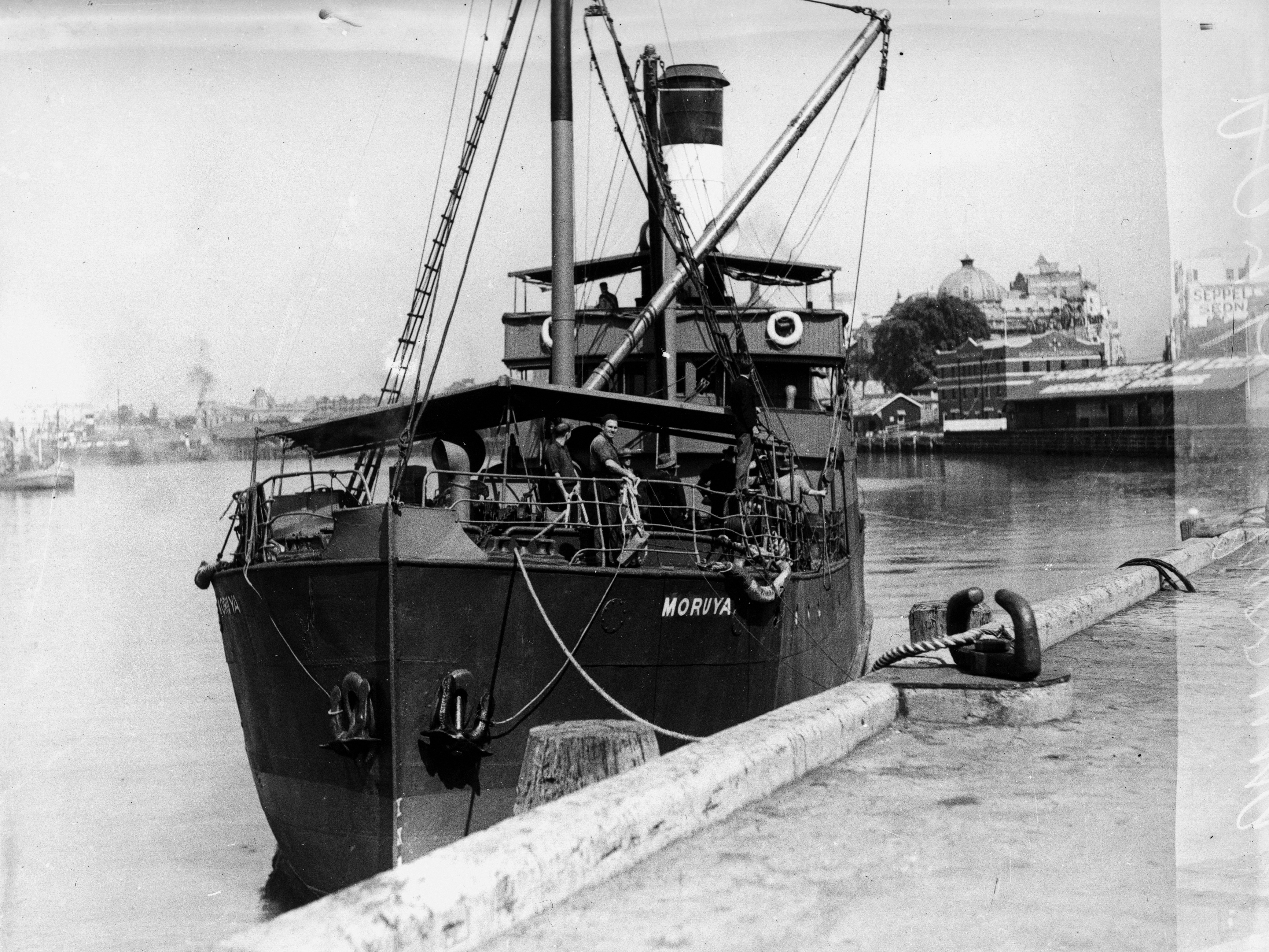 530 GRT cargo steamship Moruya, moored in the Brisbane River where the Story Bridge is today. Caledonian Ship Building & Engineering Co of Preston, Lancashire built her in 1906 for the Illawarra & South Coast Steam Navigation Co. In 1912 the Australian Commonwealth Government bought her and renamed her Stuart. In 1913 Howard Smith Ltd's Australian Steamships Pty bought her, reverted her name to Moruya and registered her in Melbourne. In 1938 Mollers Towages bought her, renamed her Jessie Moller and registered her in Shanghai. Japanese forces captured her in 1941 and she was restored to Mollers after Japan's unconditional surrender in 1945. She was damaged in 1949 and subsequently scrapped.